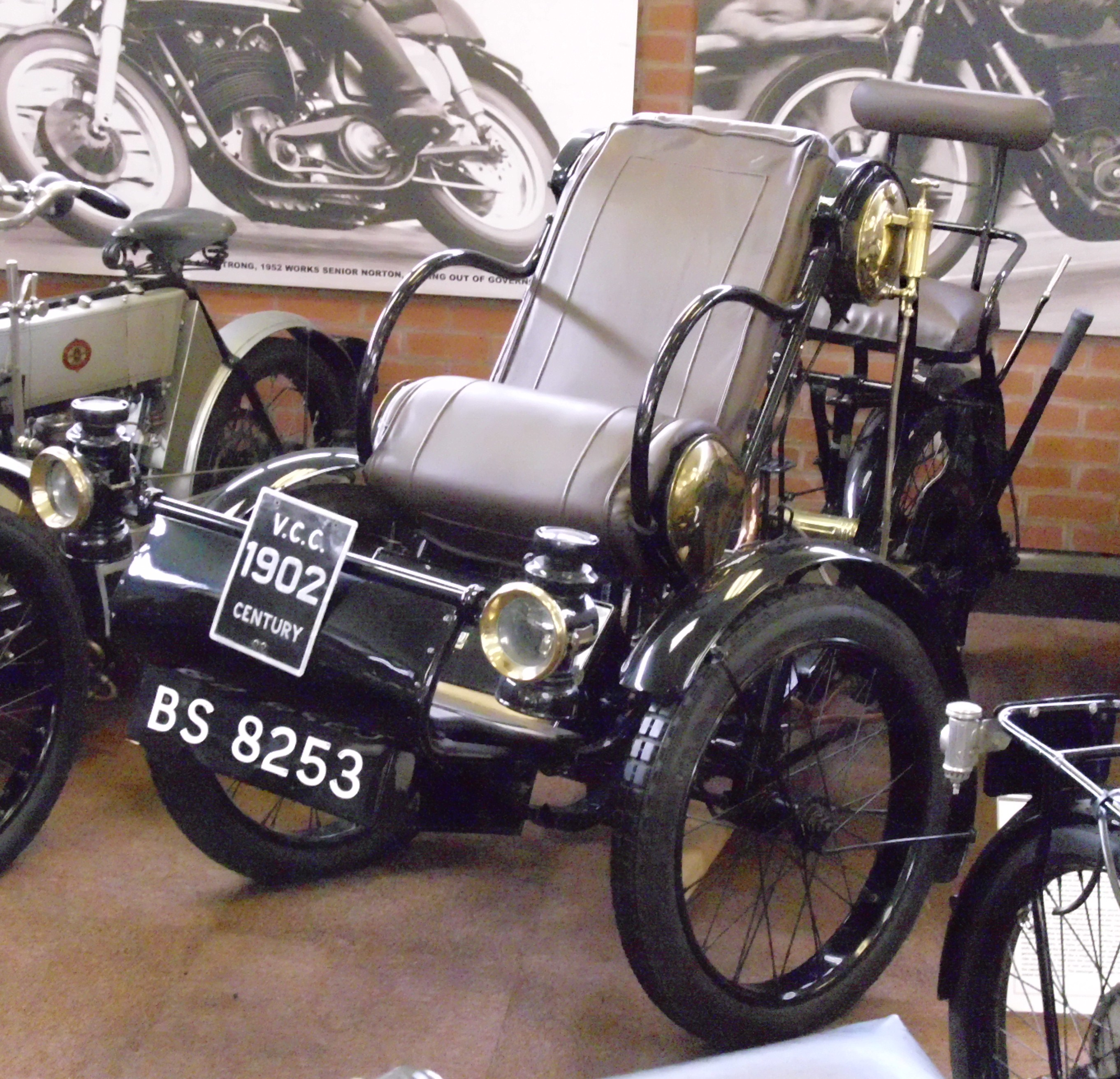 Century Forecar 1902